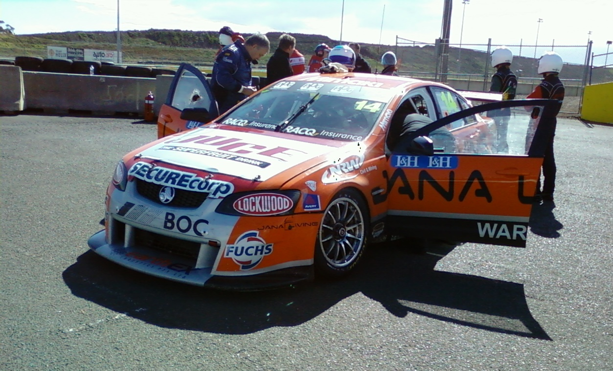 The Holden VE Commodore of Jason Bargwanna at Calder Park Raceway on 20 September 2011.